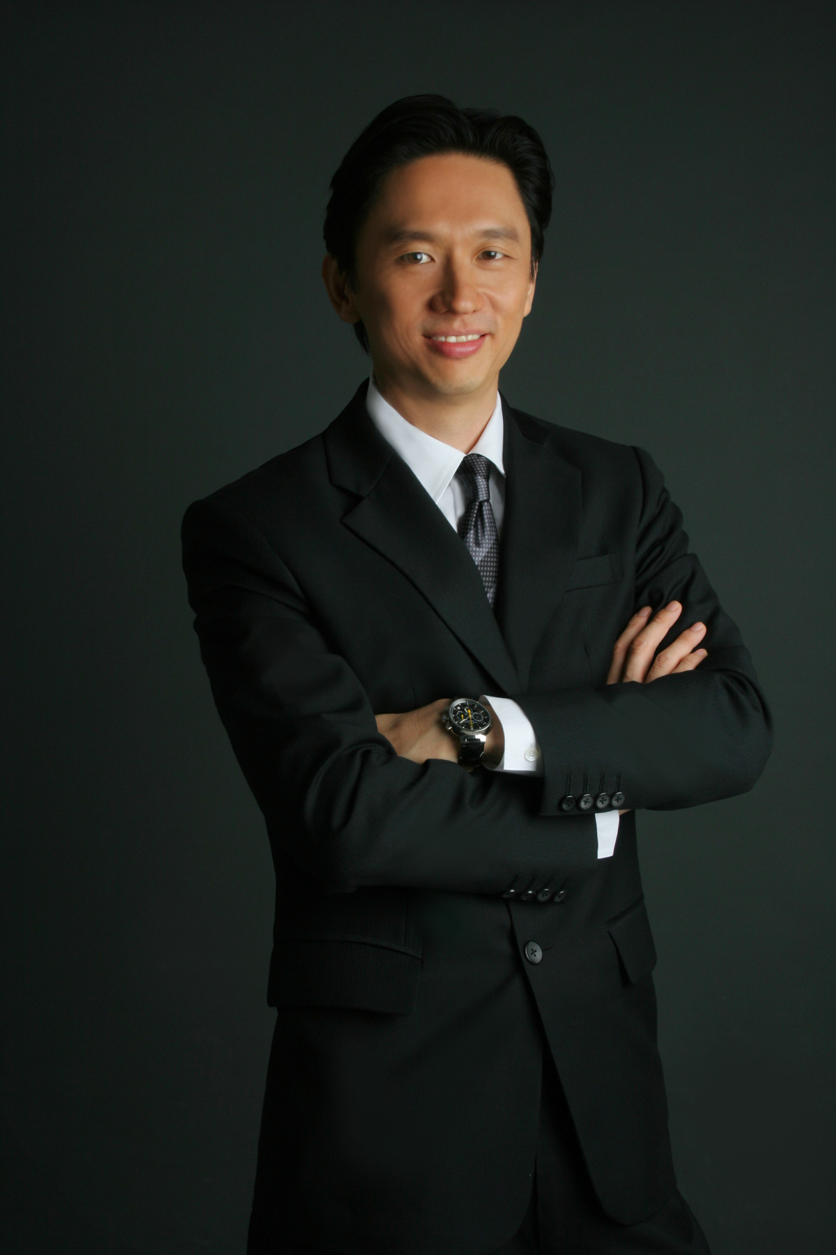 Ted Fang in grey suit